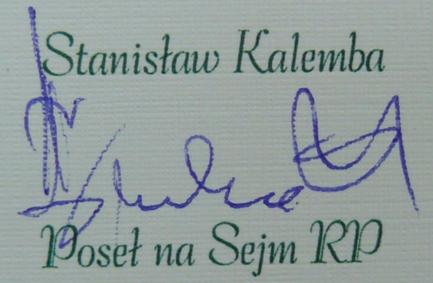 Stanislaw Kalemba autograph - Polish politician.